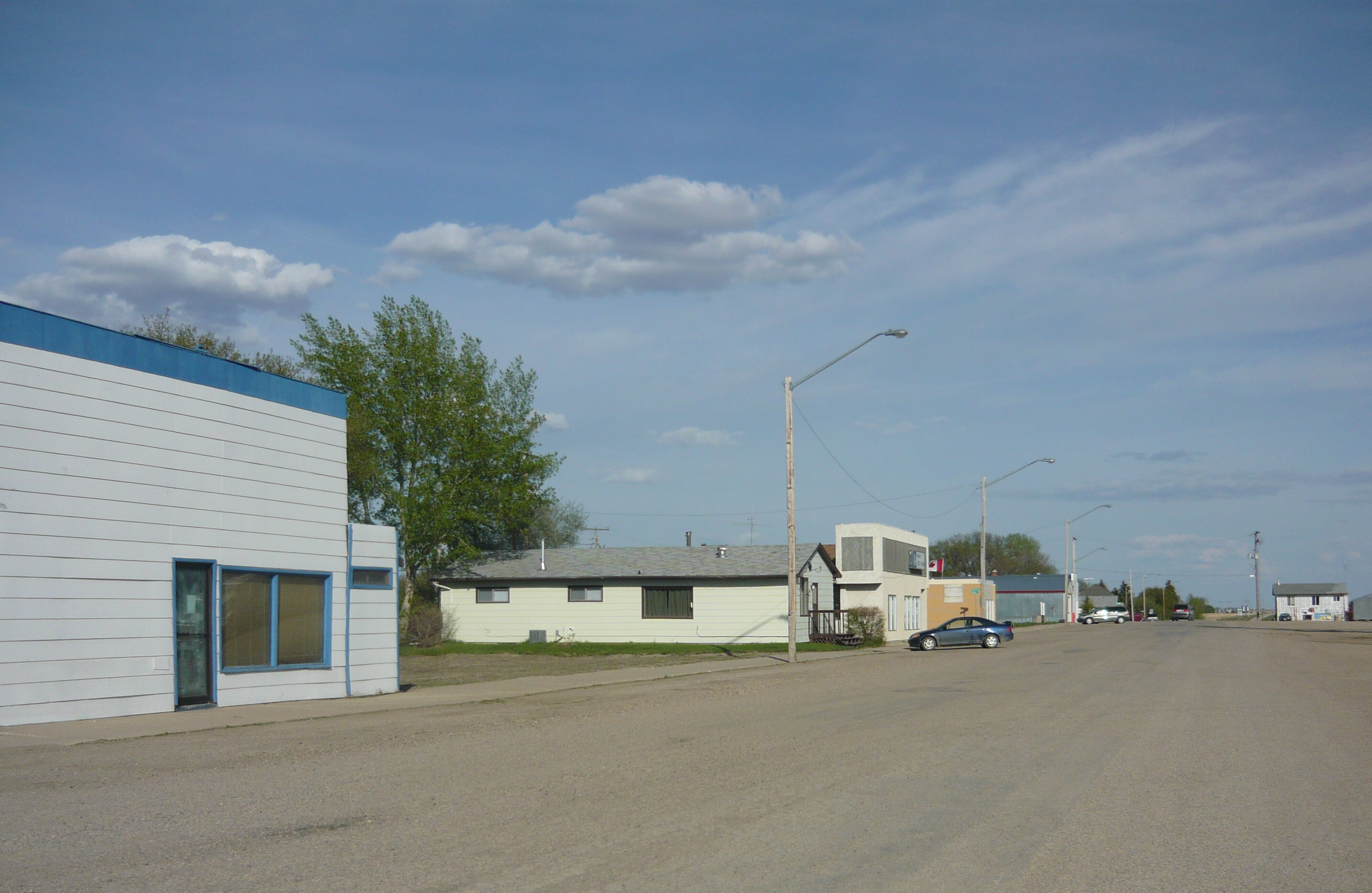 Railway Avenue (taken near corner of Islay Street, looking toward the southeast), Colonsay, Saskatchewan, Canada